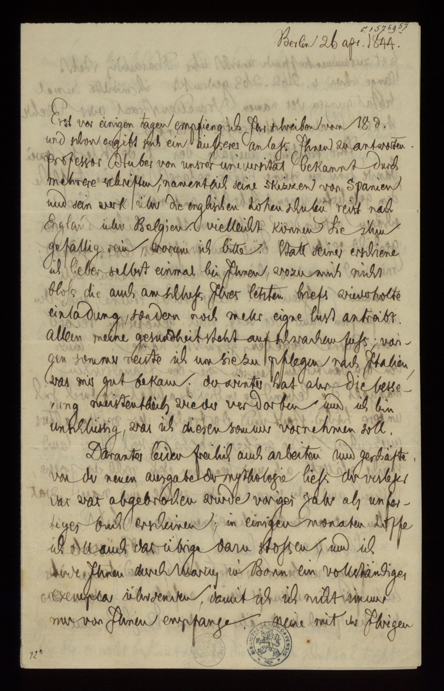 Ghent University Library published 14 letters between Jacob Grimm and Jan Frans Willems.